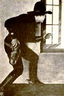 Still from the American western film The Lone Star Ranger (1919) with William Farnum, on page 1767 of the June 21, 1919 Moving Picture World.